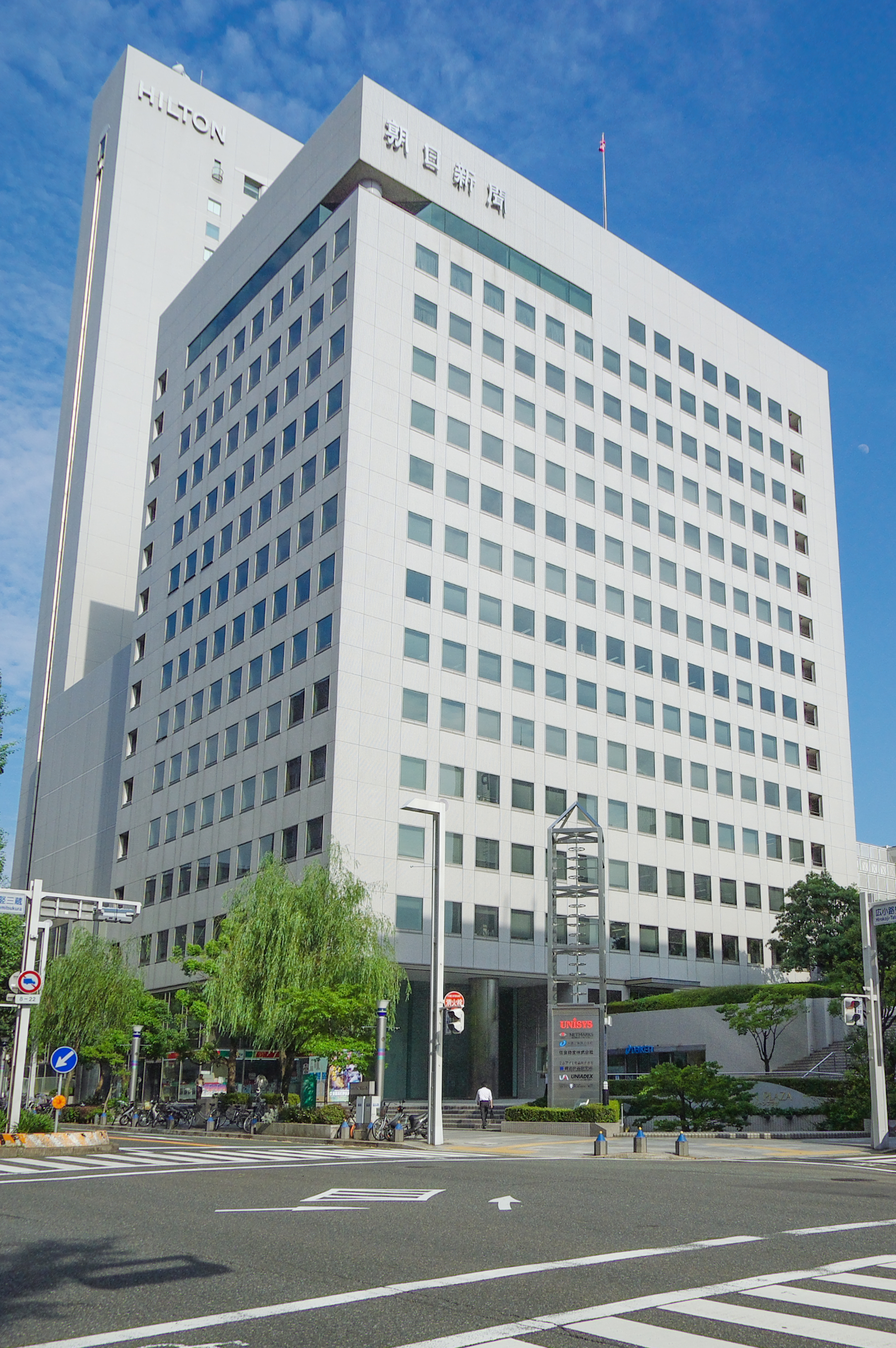 Photograph of Nagoya Asahi Kaikan, Asahi Shimbun Nagoya Office, in Naka-ku, Nagoya, Aichi Prefecture, Japan.